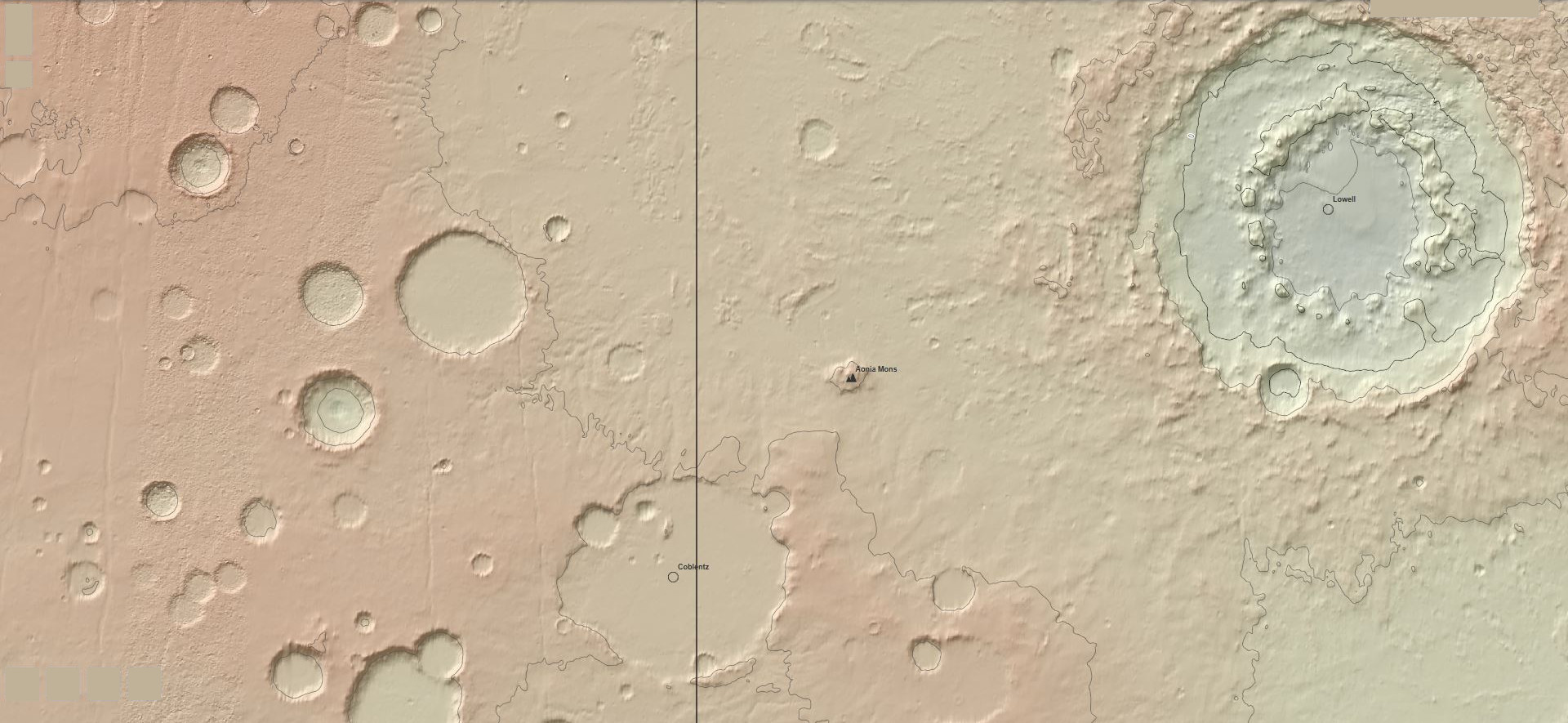 This topographic map was created using Mars Orbiter Laser Altimeter (MOLA) technology on the Mars Global Surveyor spacecraft. This image is a screenshot of RedMapper's website and shows position of Coblentz crater in respect to other nearby features. The entire crater of Coblentz sits above areoid.